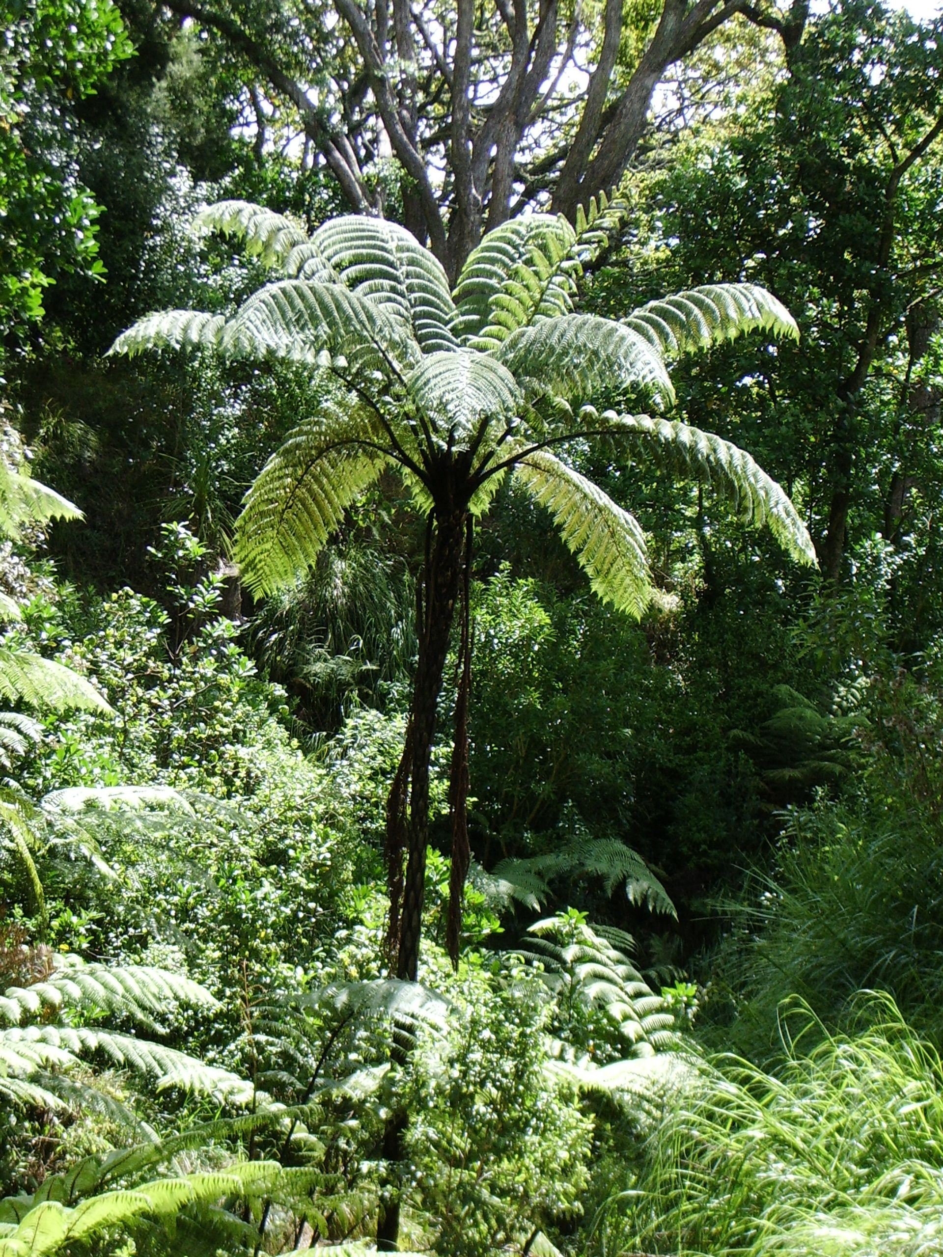 A Black Tree Fern (Cyathea medullaris) Height: estim. 6 m Location: Auckland Domain